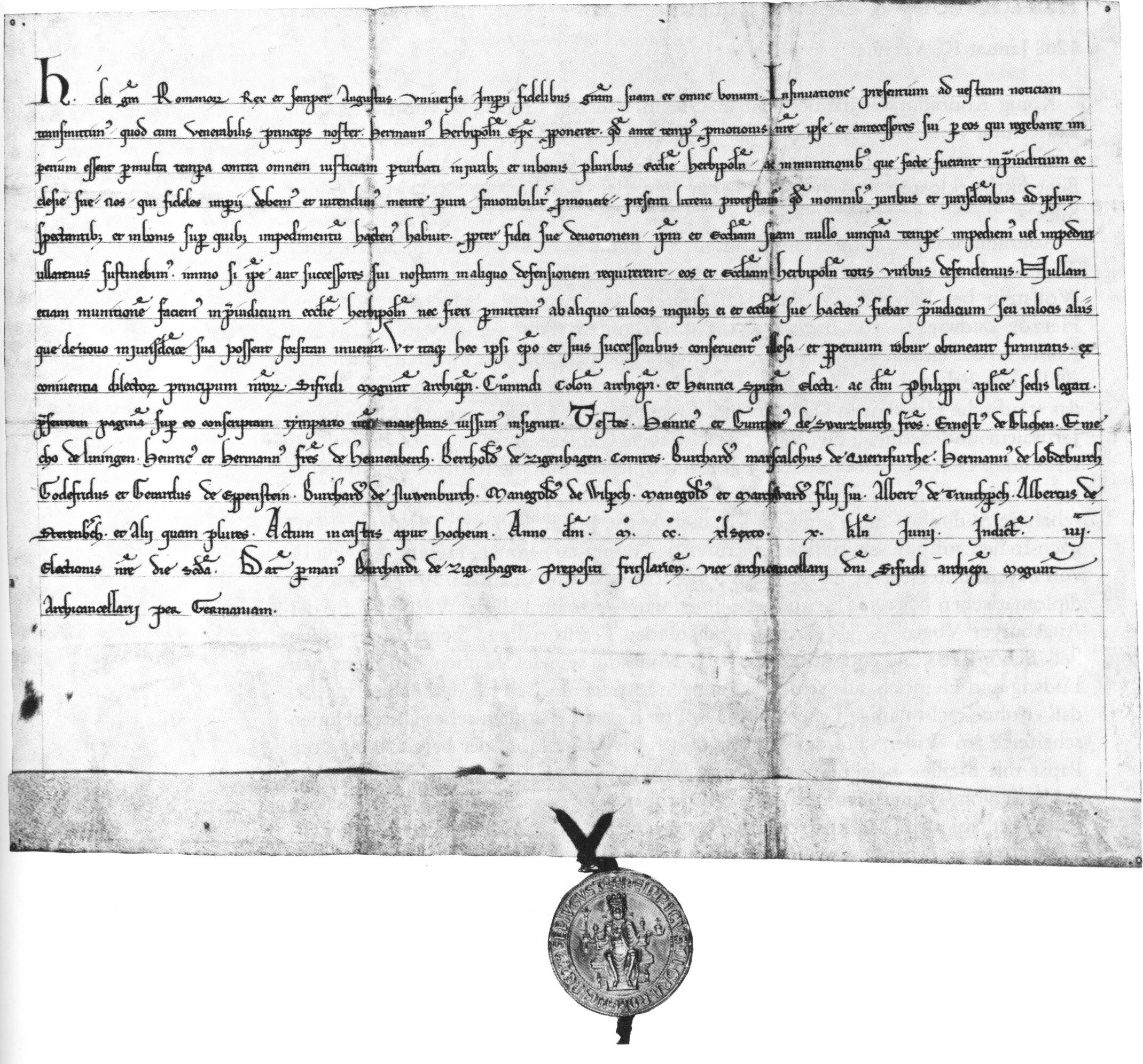 Charter of Henry Raspe, Landgrave of Thuringia and German anti-king, for bishop Hermann of Würzburg and his diocese, issued on May 23rd, 1246. München, Bayerisches Hauptstaatsarchiv, Kaiserselekt 777.